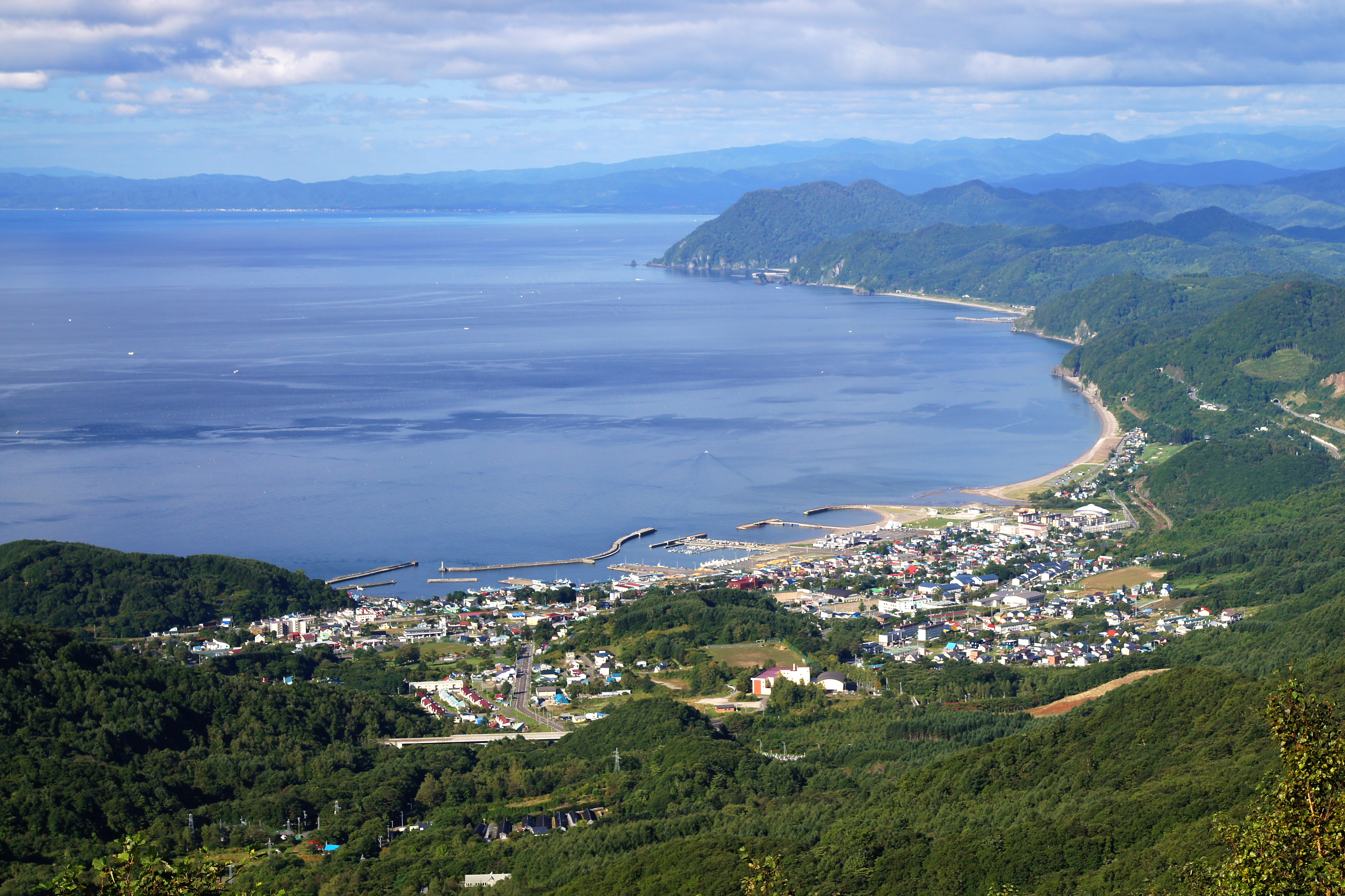 Uchiura Bay and Toyoura town view from The Windsor Hotel Toya Resort & Spa in Toyako, Hokkaido prefecture, Japan.